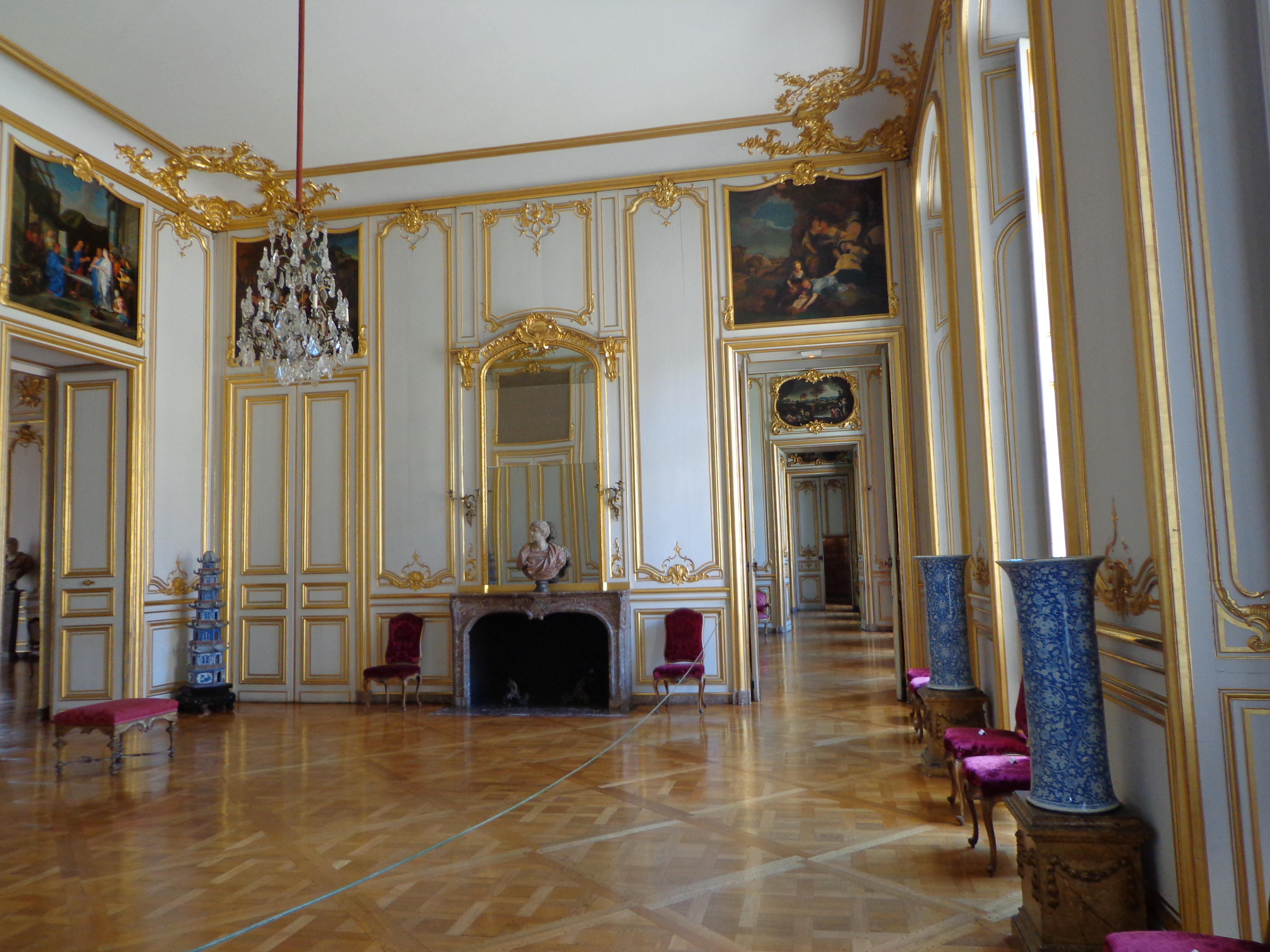 Some pictures from Strasbourg's Museum for decorative arts